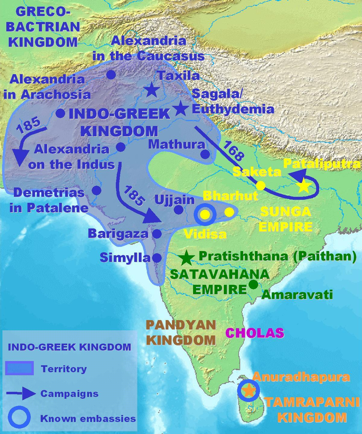 Territorial map of the Indo-Greeks, according to the "Atlas der Welt Geschichte". Self-made, 2007.